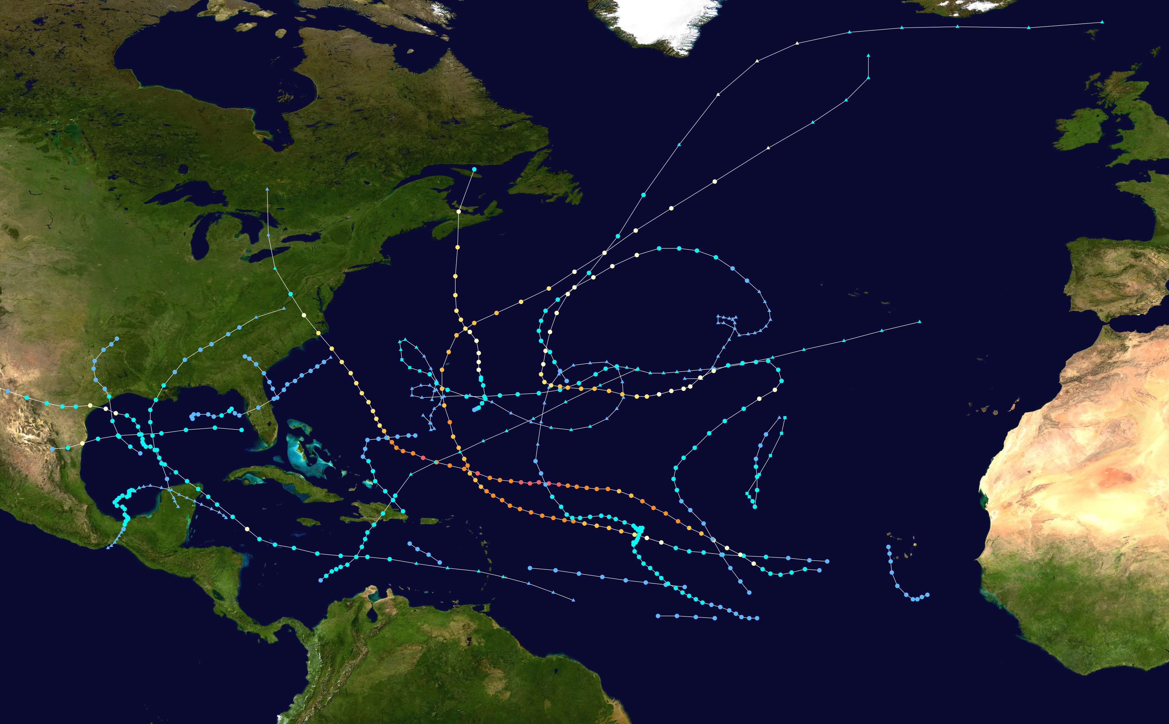 This map shows the tracks of all tropical cyclones in the 2003 Atlantic hurricane season. The points show the location of each storm at 6-hour intervals. The colour represents the storm's maximum sustained wind speeds as classified in the Saffir-Simpson Hurricane Scale (see below), and the shape of the data points represent the type of the storm. Saffir–Simpson scale Tropical depression≤38 mph≤62 km/h Category 3111–129 mph178–208 km/h Tropical storm39–73 mph63–118 km/h Category 4130–156 mph209–251 km/h Category 174–95 mph119–153 km/h Category 5≥157 mph≥252 km/h Category 296–110 mph154–177 km/h Unknown Storm type Tropical cyclone Subtropical cyclone Extratropical cyclone / Remnant low / Tropical disturbance / Monsoon depression